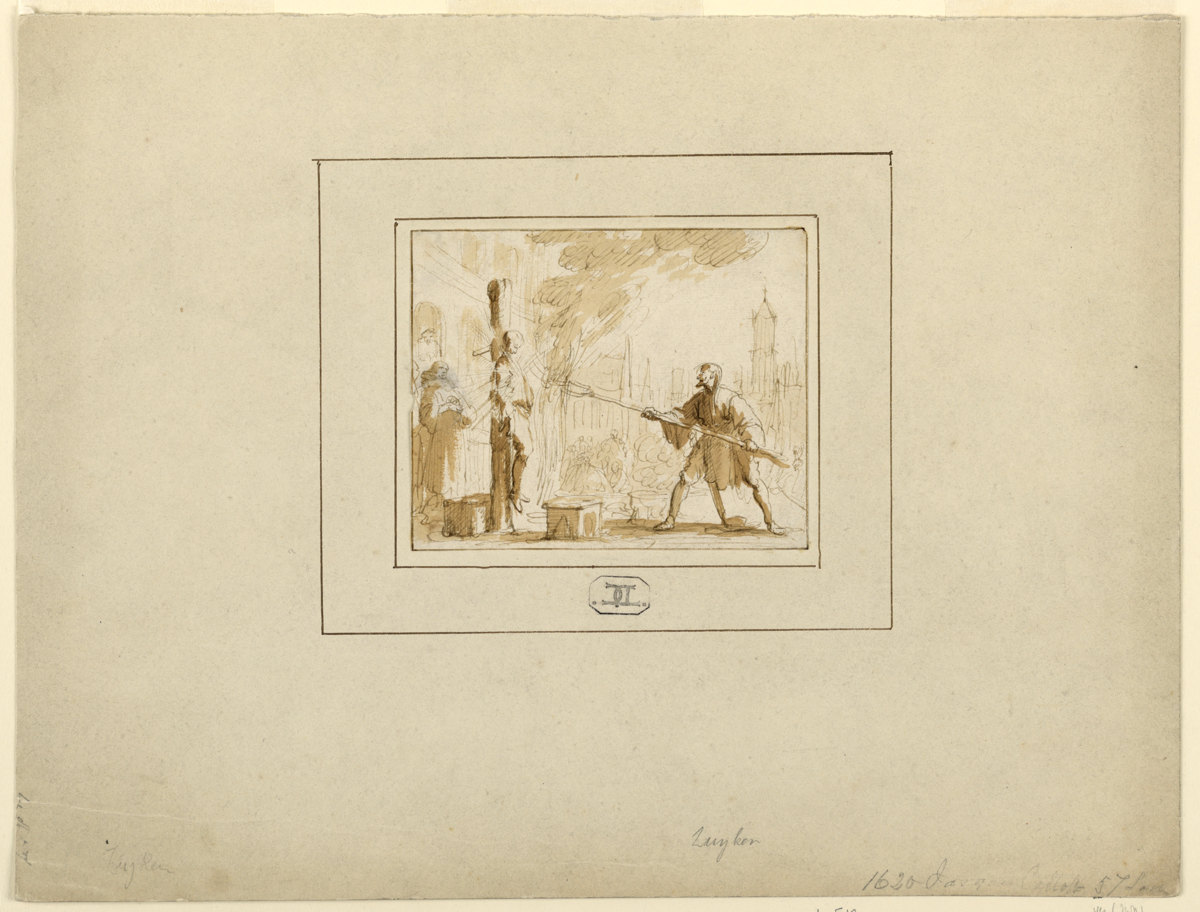 A figure, tied to a stake, left, is being tortured by another who holds toward him a bunch of burning grass held out by a pitchfork. A priest at left and numerous figures witness the scene, which takes place in a city square.